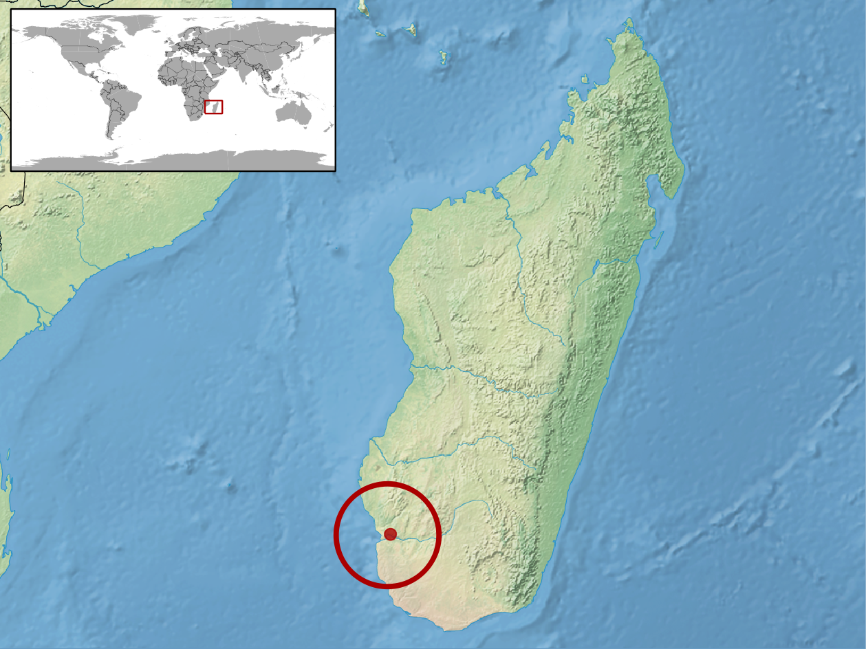 geographic distribution of Trachylepis vezo